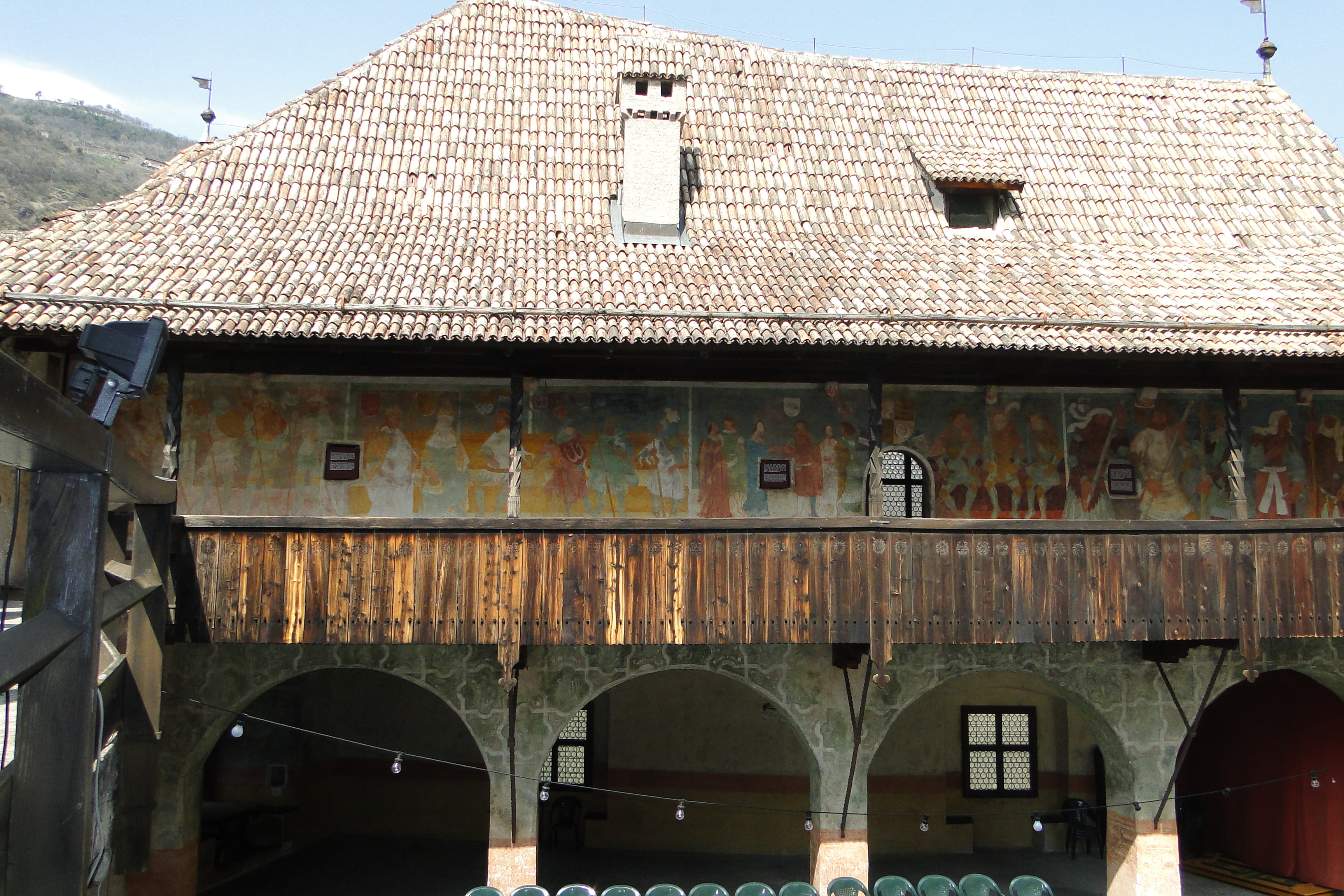 Runkelstein Castle: Balcony over the courtyard